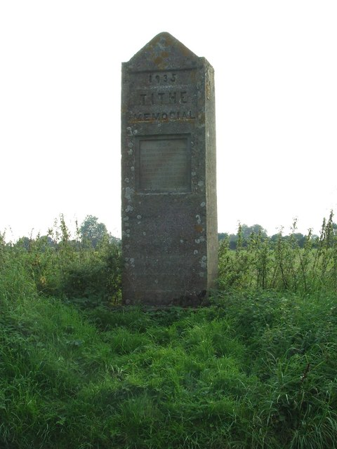 Tithe memorial opposite the church Elmsett Suffolk for close up of the plaque see 975141